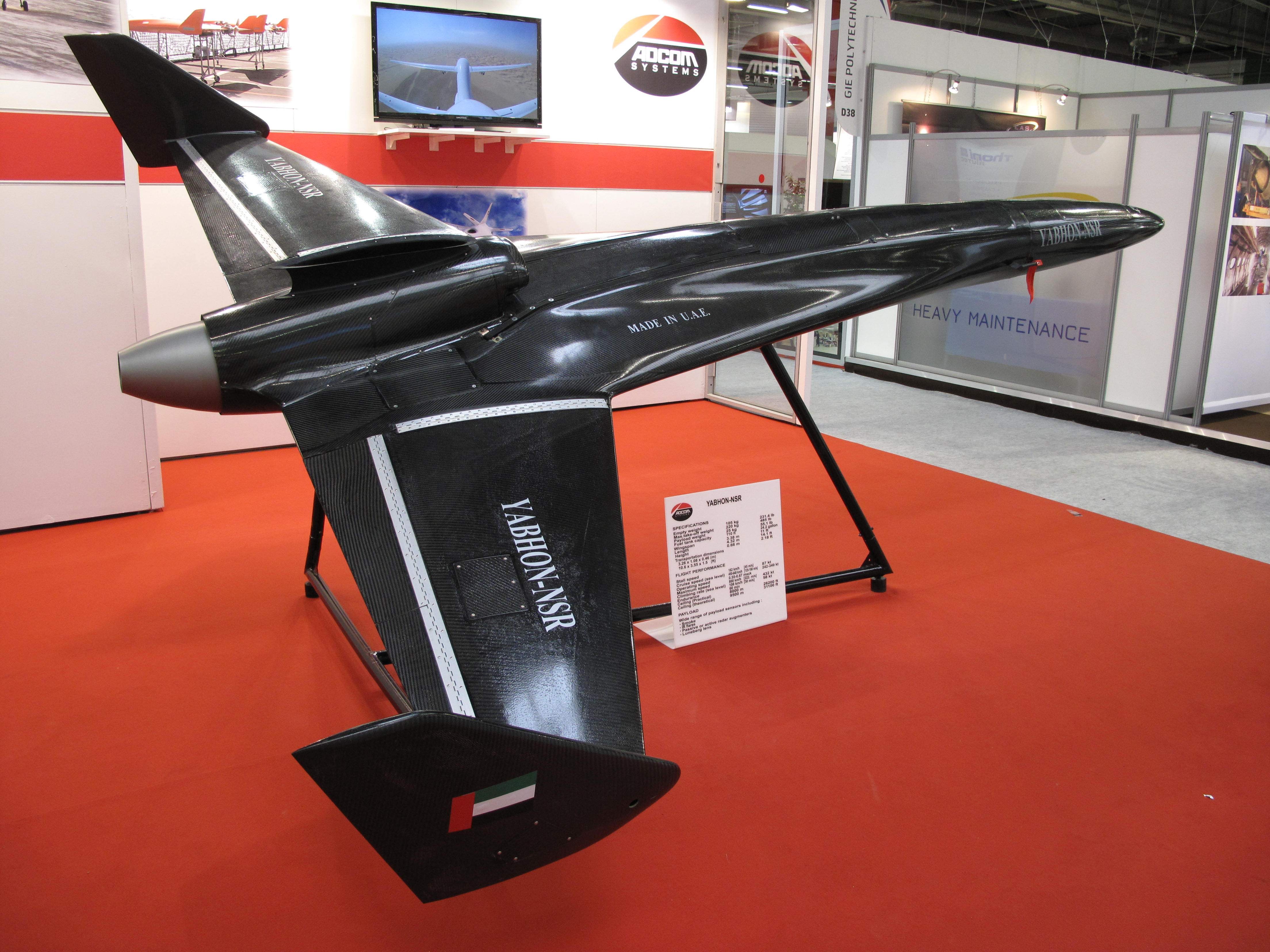 UAE UCAV ADCOM Yabhon-NSR at the Paris Air Show 2013 (probably series Yabhon-N)